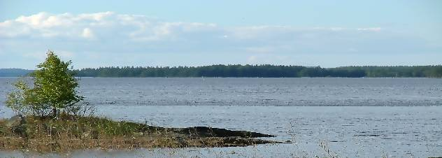 Pyhälahti bay of the Lake Keitele in Konnevesi, Finland